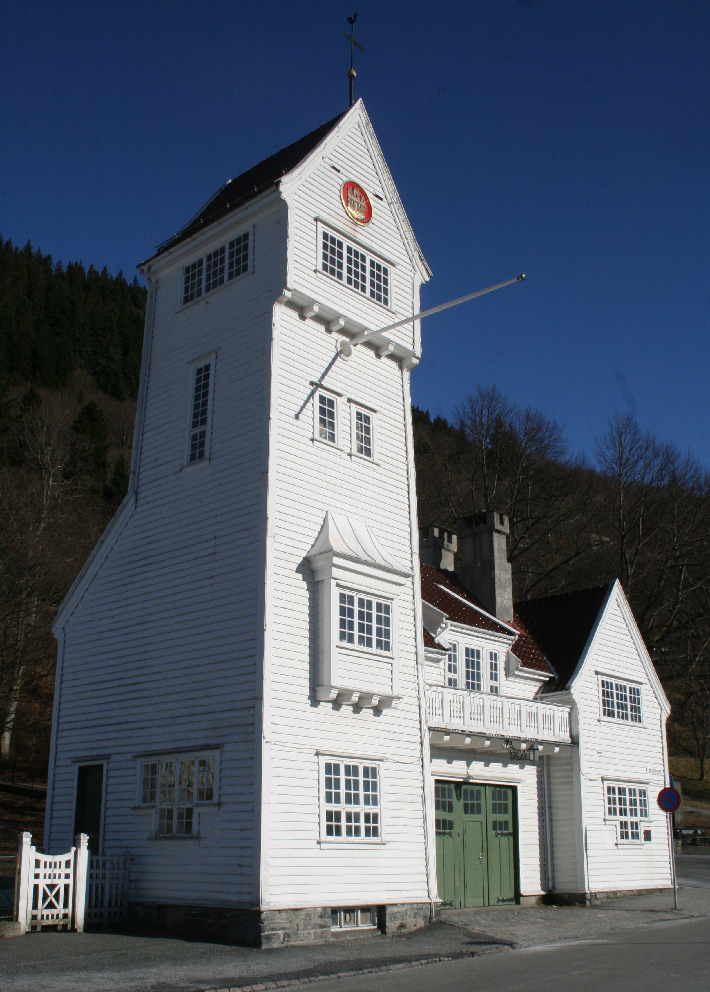 The former Skansen fire station in Bergen, Norway (now home of the Skansens bataljon youth organization (buekorps)). Established 1903; architect Paul Theodor Bjørnstad.